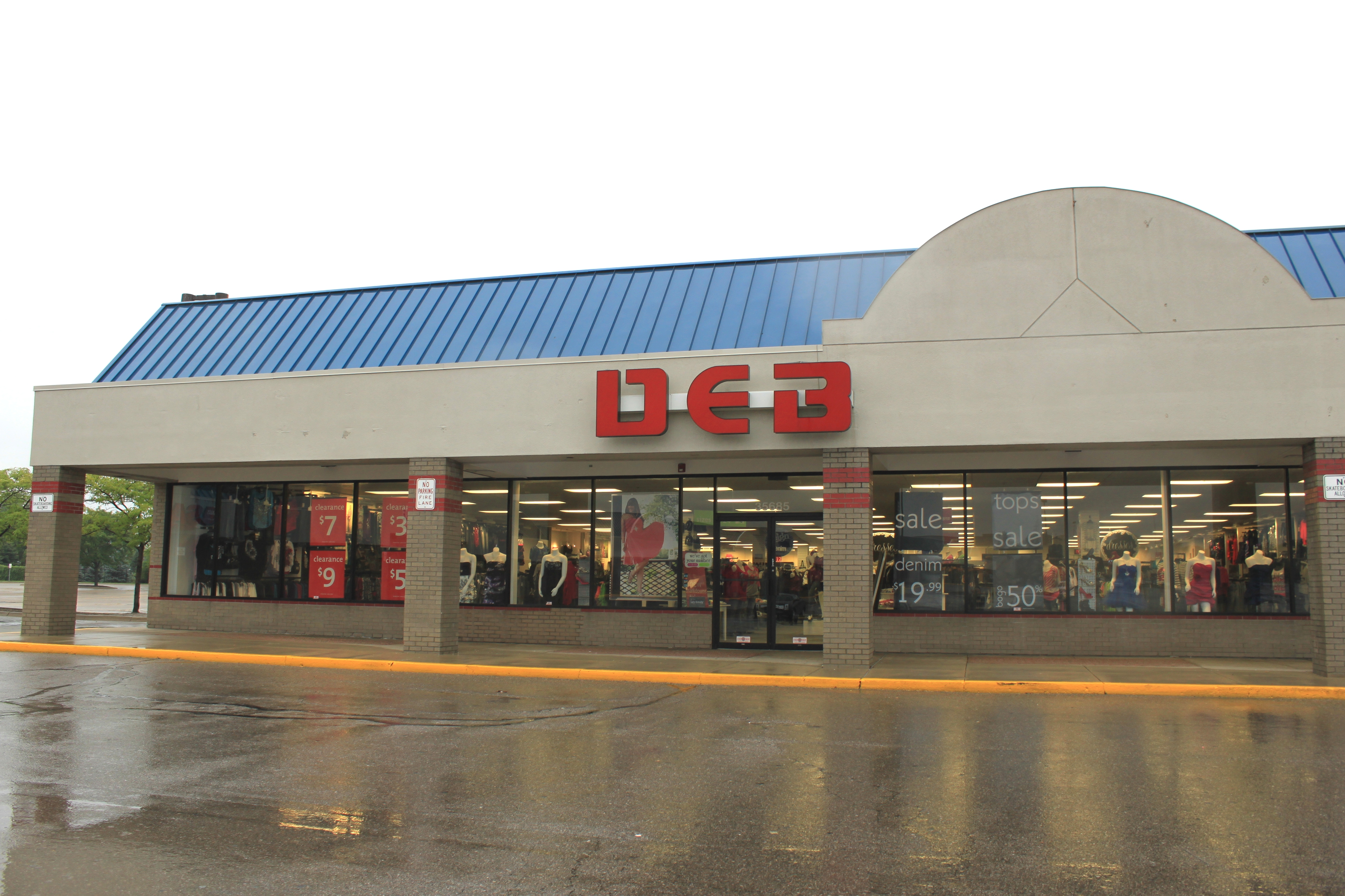 DEB shop, 35685 Warren Road, West Ridge Shopping Center, Westland, Michigan.